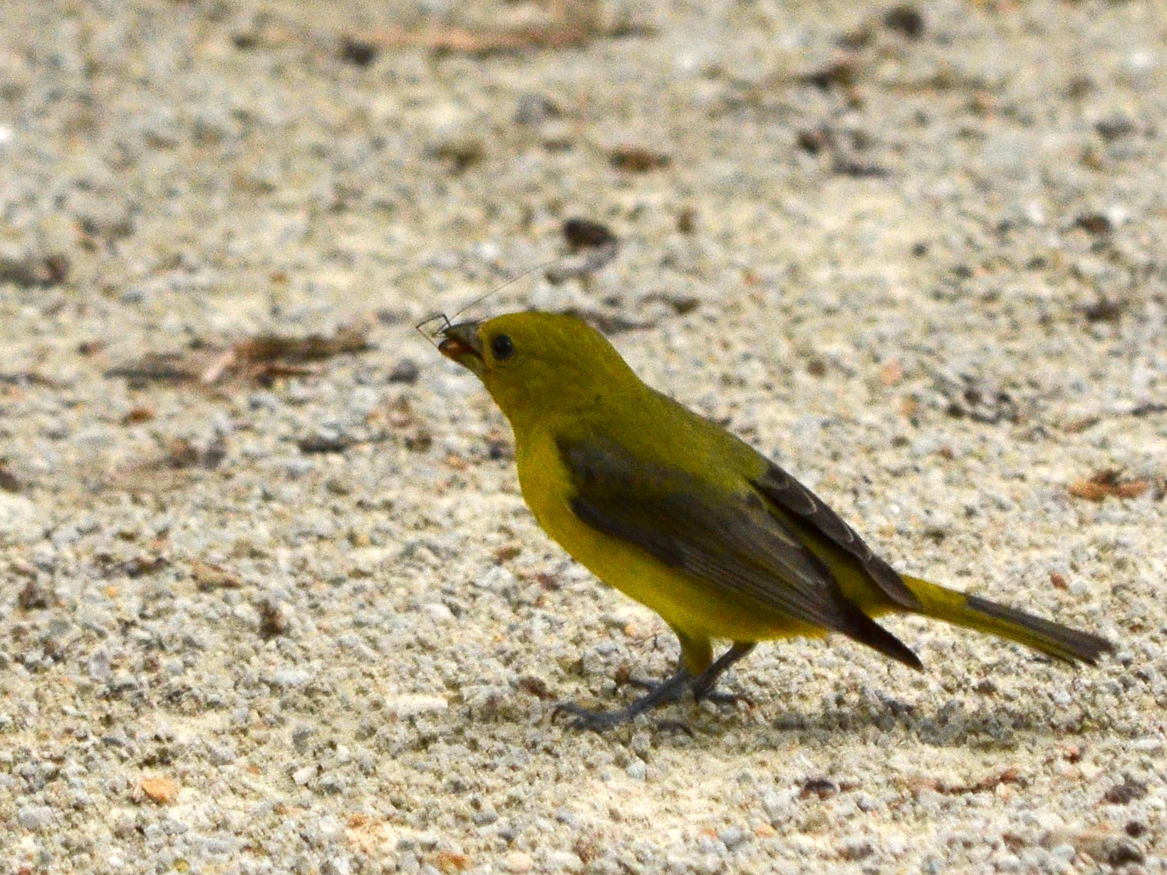 Green Valley FP Naperville, IL